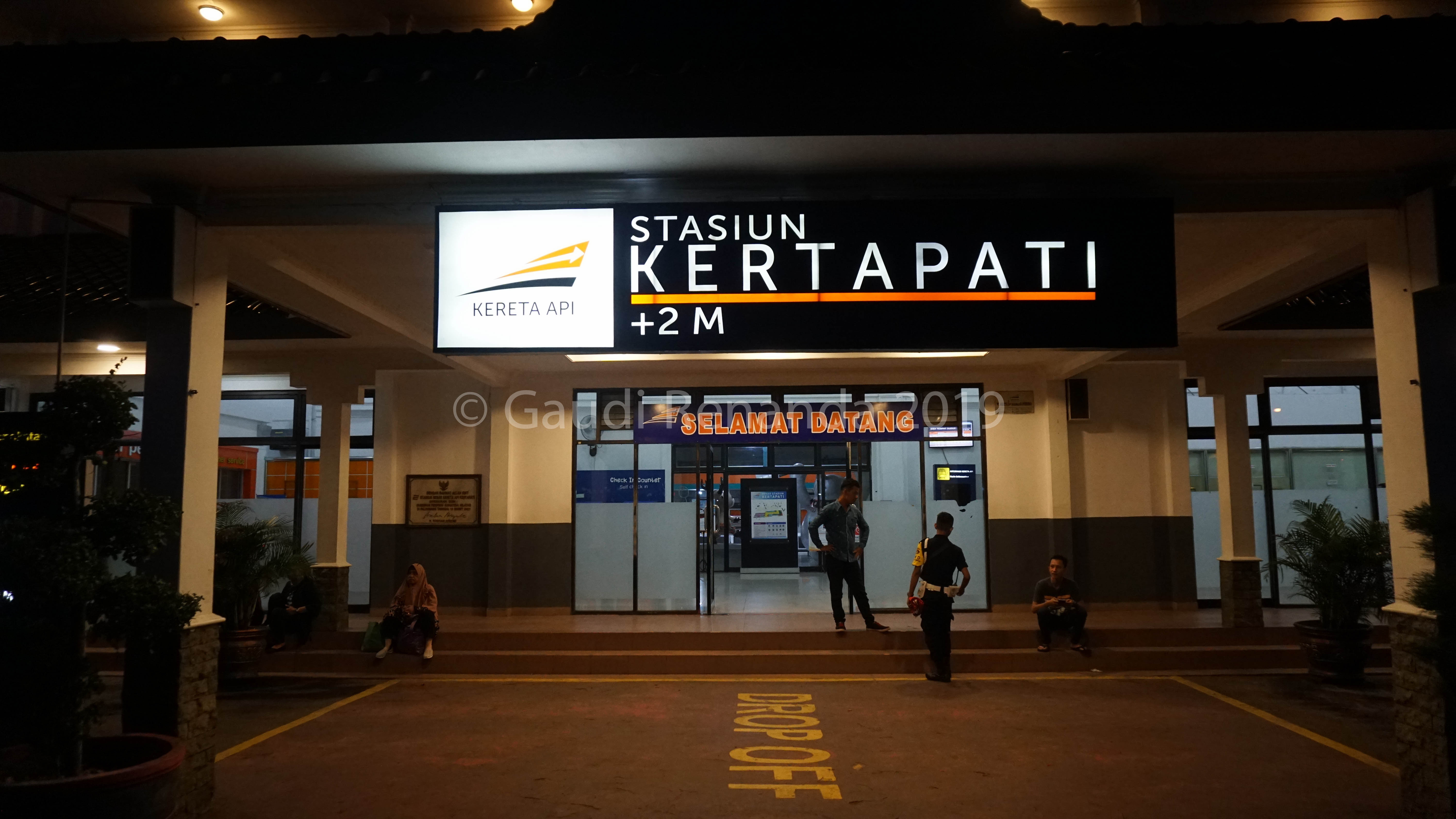 Kertapati Railway Station Lobby